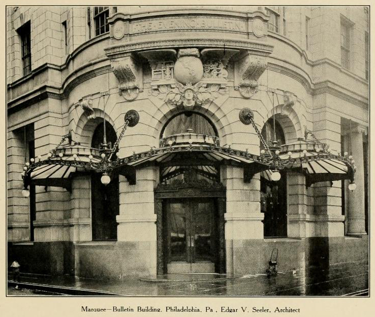 Bulletin Building, Philadelphia, Pa, Edgar V. Seeler, Architect. 2=1315-1325 Filbert Street, Philadelphia--Dthomsen8 (talk) 16:02, 17 October 2017 (UTC)